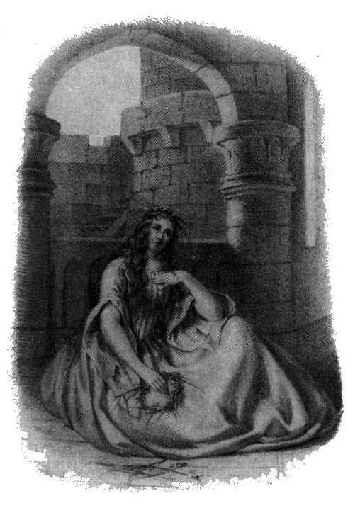 Emilie Högquist as Ofelia